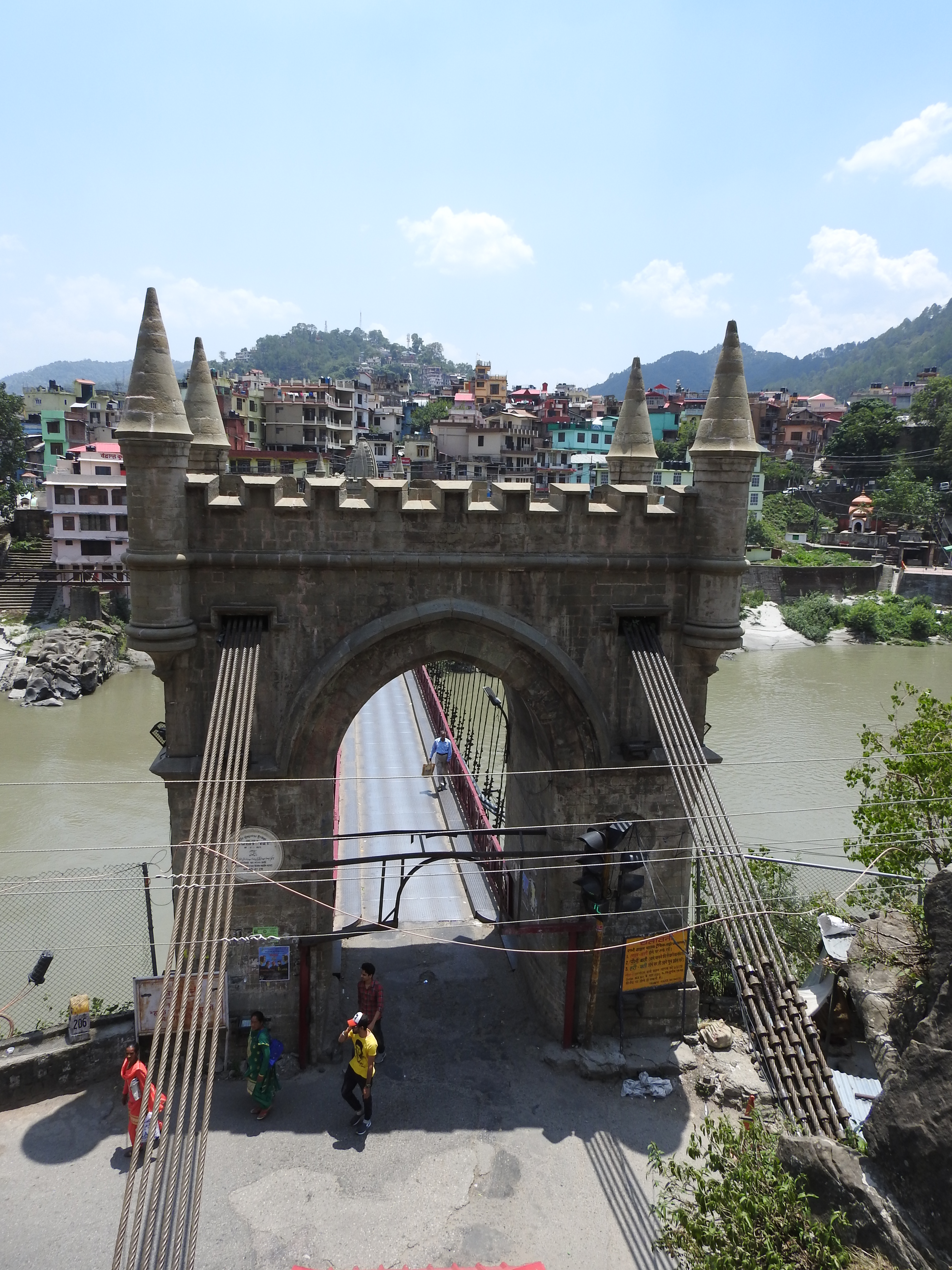 Victoria Bridge ,Mandi ,Himachal Pardesh.The Bridge is built by erstwhile Raja of Mandi state in 1877 over River Beas. Presently this bridge is open only for light vehicles.